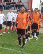 Jetmir Kadriu Bedore a Game